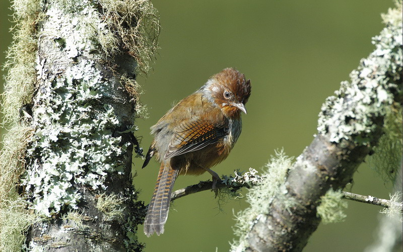 杉林溪 Formosan Barwing or Taiwan Barwing (Actinodura morrisoniana)